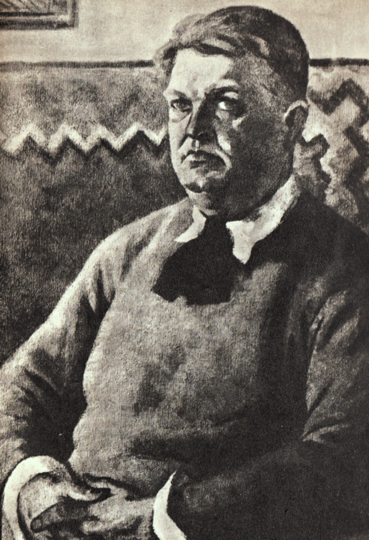 Portrait of the Romanian novelist and political figure Mihail Sadoveanu. Oil painting.